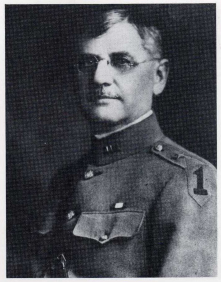 Major General William Sidney Graves from